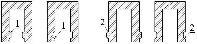 Plastic depression